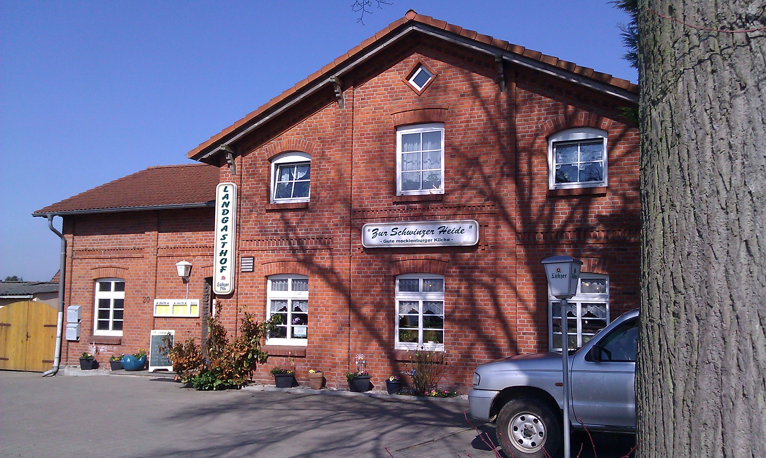 Inn Zur Schwinzer Heide in Wendisch Waren, district Ludwigslust-Parchim, Mecklenburg-Vorpommern, Germany